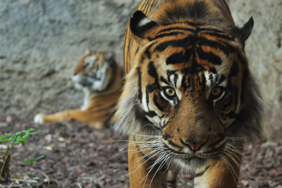 Sumatran Tiger